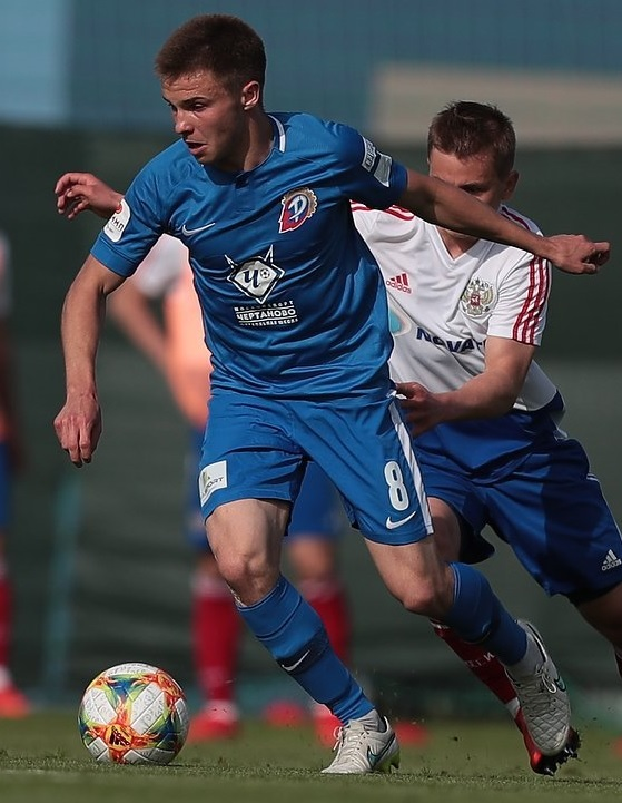 Maksim Vityugov with FC Chertanovo Moscow in a game against Russia national team.